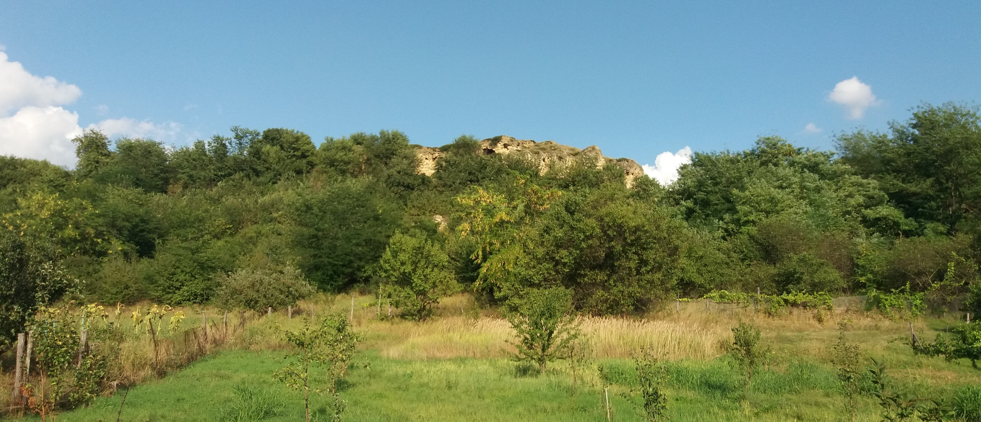 Lobodova rock in the village Novenkiy